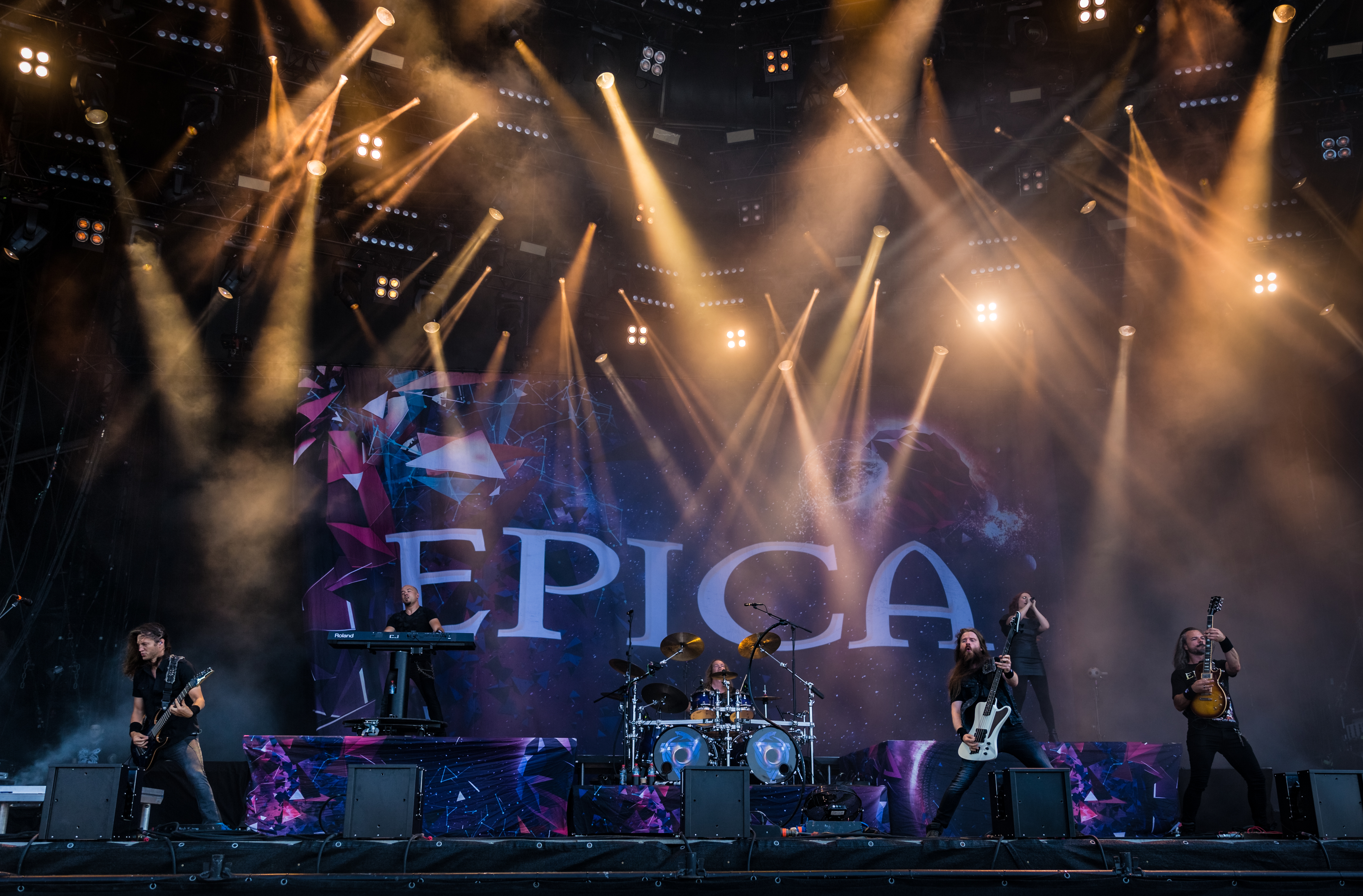 Epica - Wacken Open Air 2018